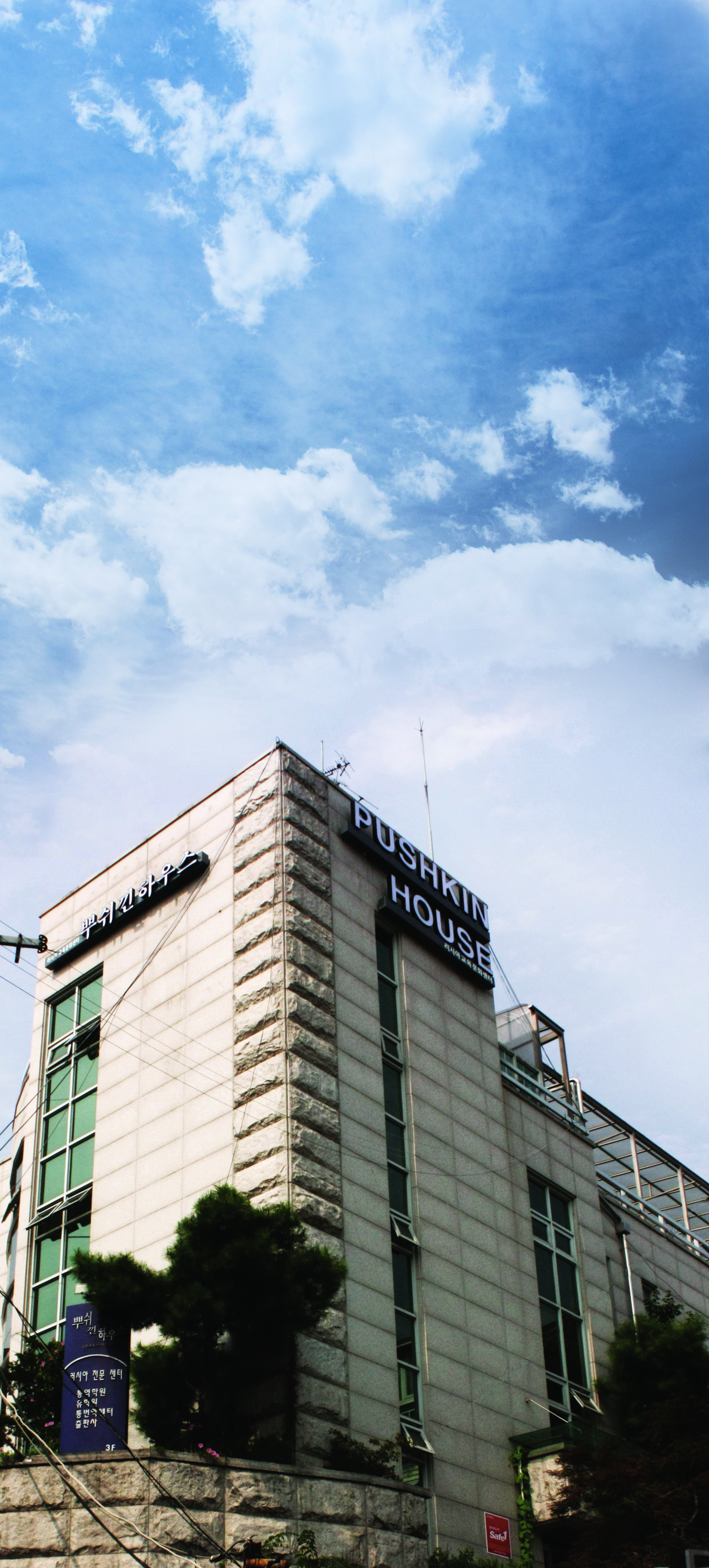 뿌쉬낀하우스 전경